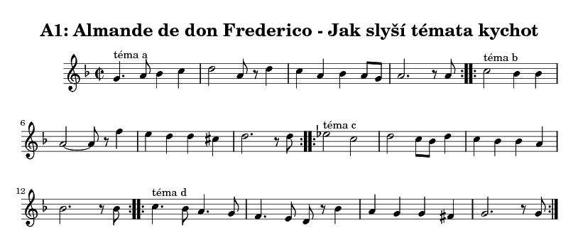 Derivated work: Themes A,B,C,D from "Almande de don Frederice" (Pierre Phalèse), as heared and writted down by User:Kychot